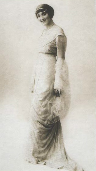 Princess Marina Petrovna of Russia (1892-1981)